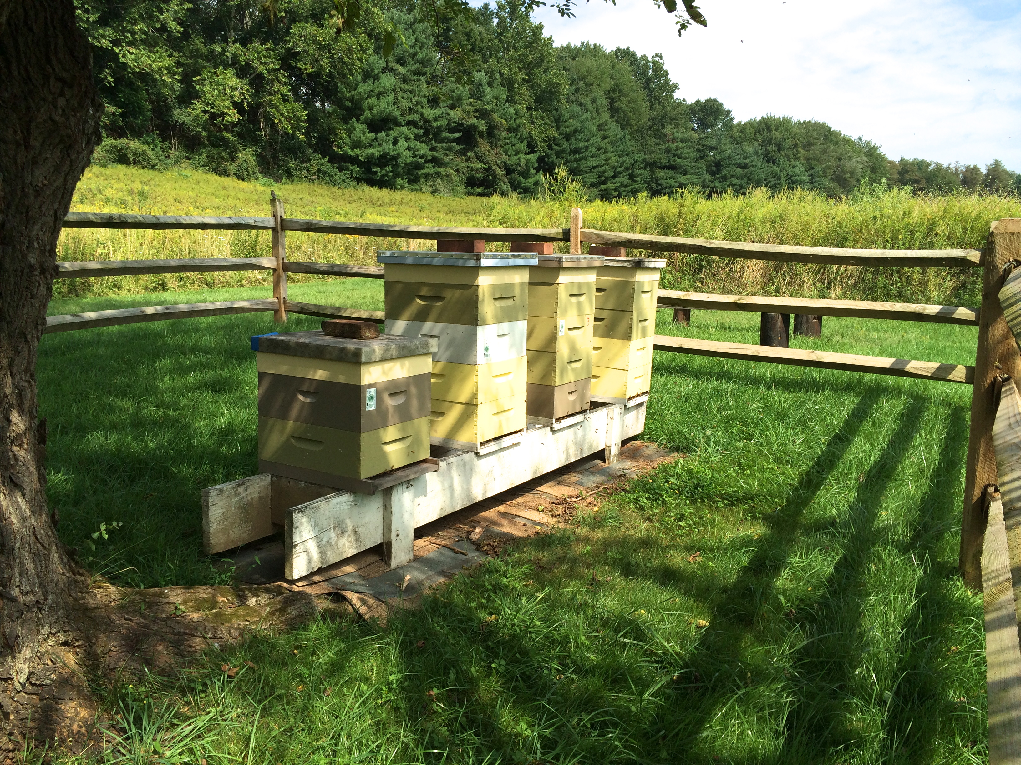 Bee hives at the Bear Branch Nature Center, Carroll County, Maryland.